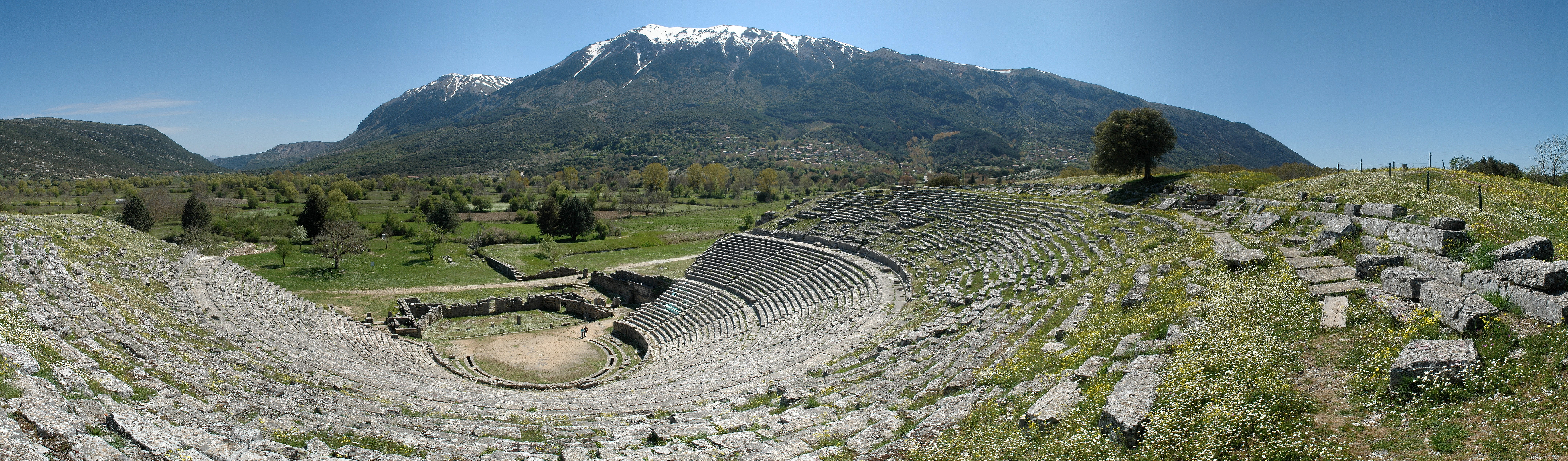 The ancient theater of Dodona, Epirus, Greece. Panorama of several photos.